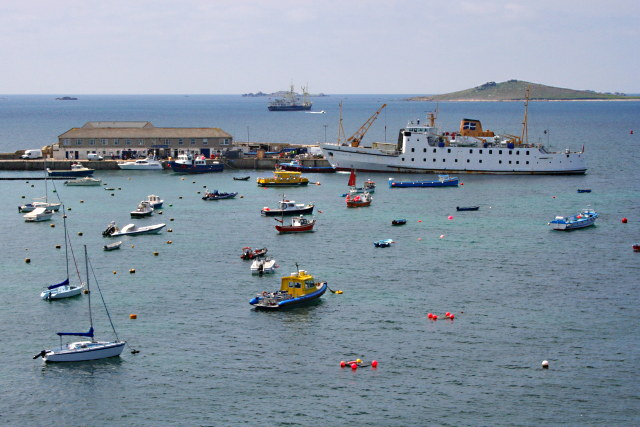 St Mary's Harbour The Scillonian III which makes a daily run from Penzance to St Mary's and back, is docked at the quayside. In the distance is the Island of Samson.